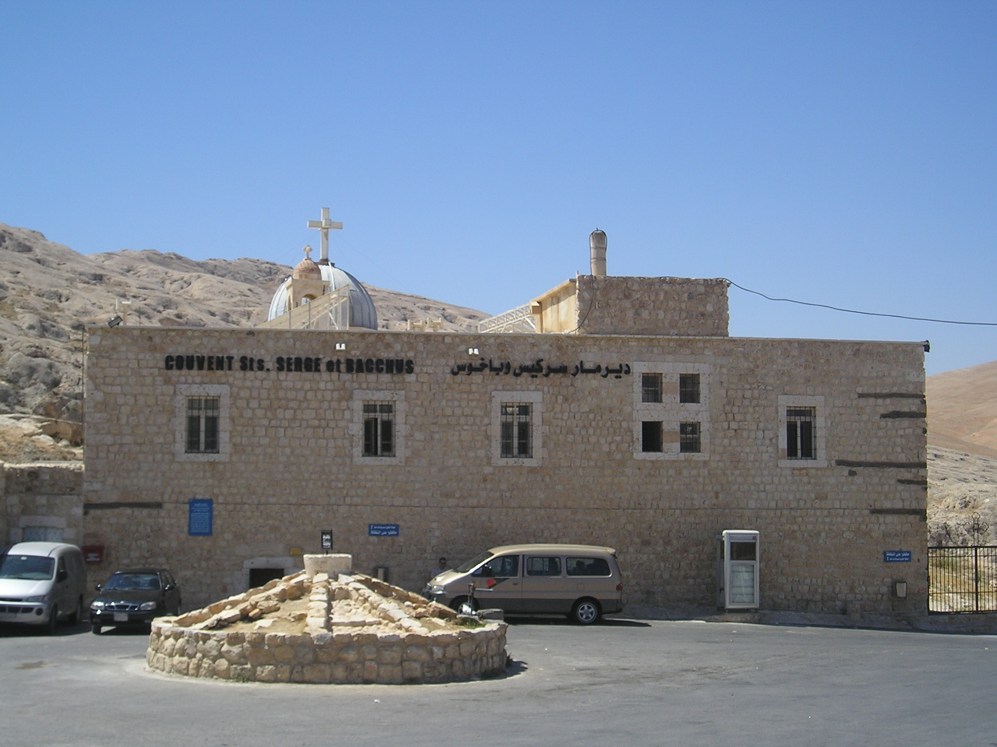 Maaloula, Syria - Monastery of St. Serge and Bachus